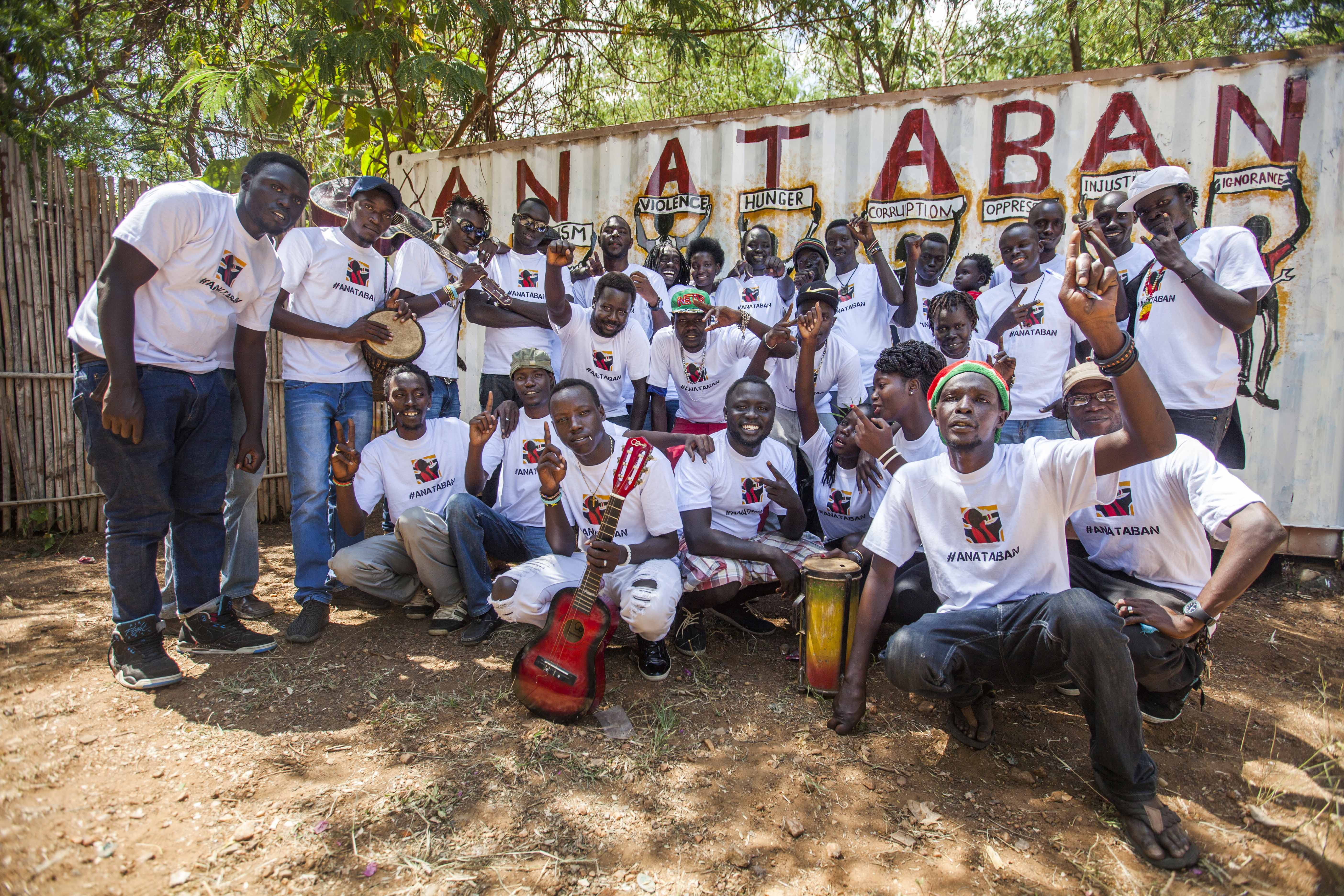 Anataban members pose for photo in September 2016